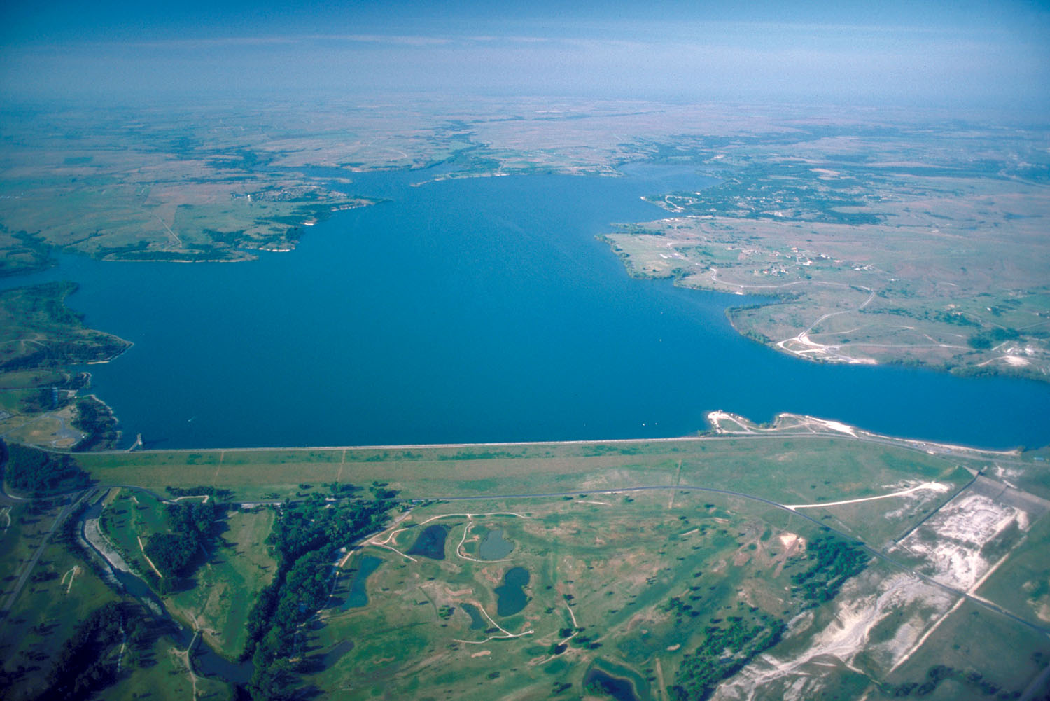 Aerial view of Benbrook Lake and Dam on the Clear Fork of the Trinity River in Tarrant County, Texas, USA. The lake is located on the fringes of Fort Worth, approximately 10 miles (16 km) southwest of central Fort Worth. View is to the southwest. Coordinates: 32°39′10.66″N 97°27′18.3″W / 32.6529611°N 97.455083°W